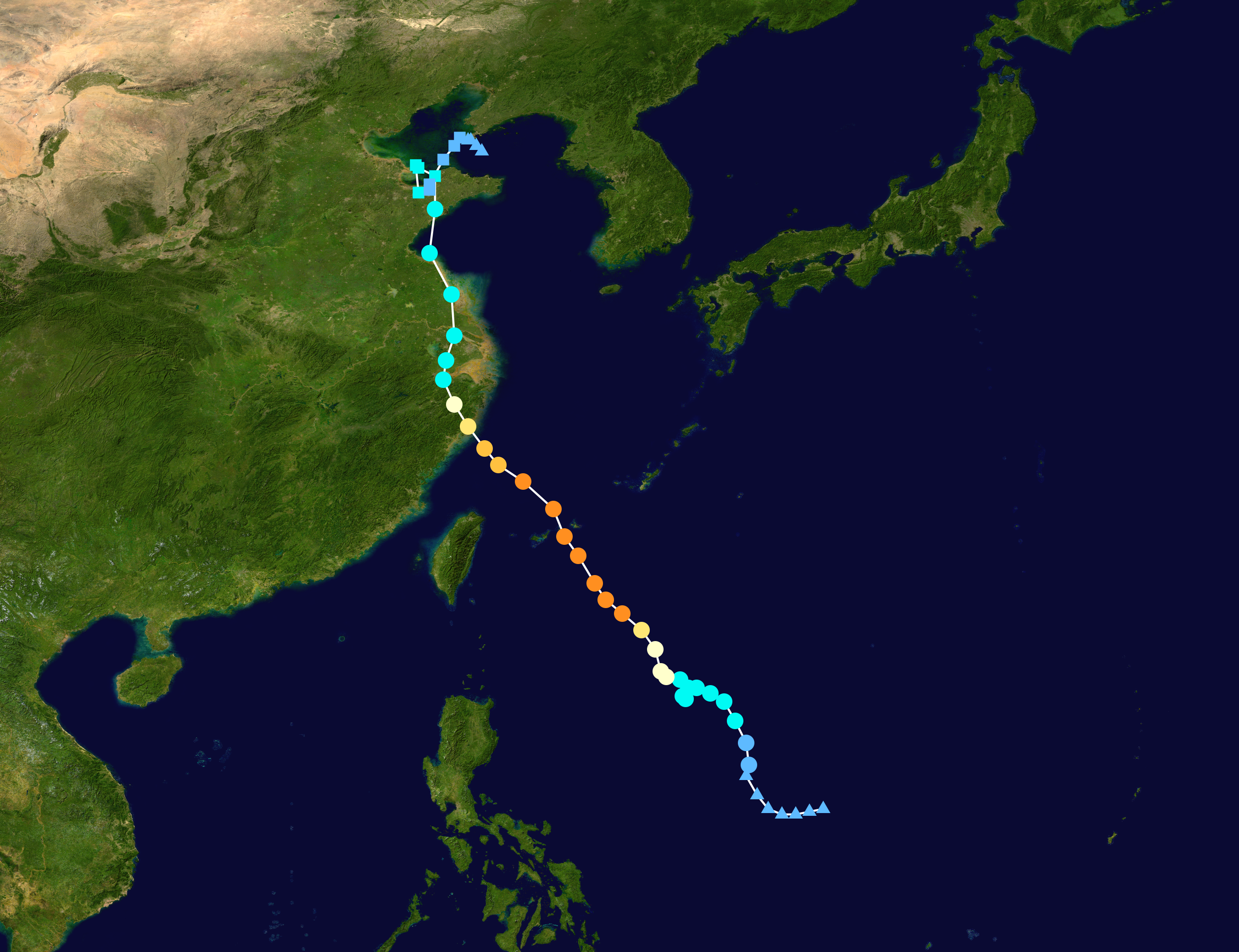 Track map of Typhoon Lekima of the 2019 Pacific typhoon season. The points show the location of the storm at 6-hour intervals. The colour represents the storm's maximum sustained wind speeds as classified in the Saffir–Simpson scale (see below), and the shape of the data points represent the nature of the storm, according to the legend below. Saffir–Simpson scale Tropical depression≤38 mph≤62 km/h Category 3111–129 mph178–208 km/h Tropical storm39–73 mph63–118 km/h Category 4130–156 mph209–251 km/h Category 174–95 mph119–153 km/h Category 5≥157 mph≥252 km/h Category 296–110 mph154–177 km/h Unknown Storm type Tropical cyclone Subtropical cyclone Extratropical cyclone / Remnant low / Tropical disturbance / Monsoon depression